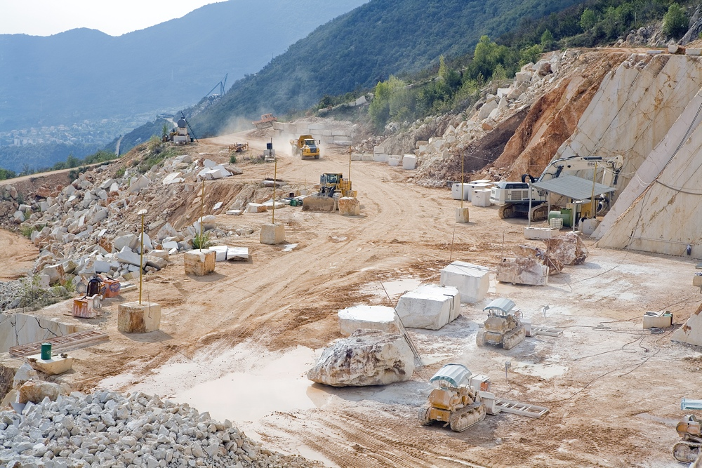 "Paine" is the name of a marble quarry located in the North of Italy near Brescia. It is the biggest marble quarry in the Botticino Basin and among the biggest marble quarries in Italy. In this quarry Botticino Classico, Fiorito and Semiclassico are extracted